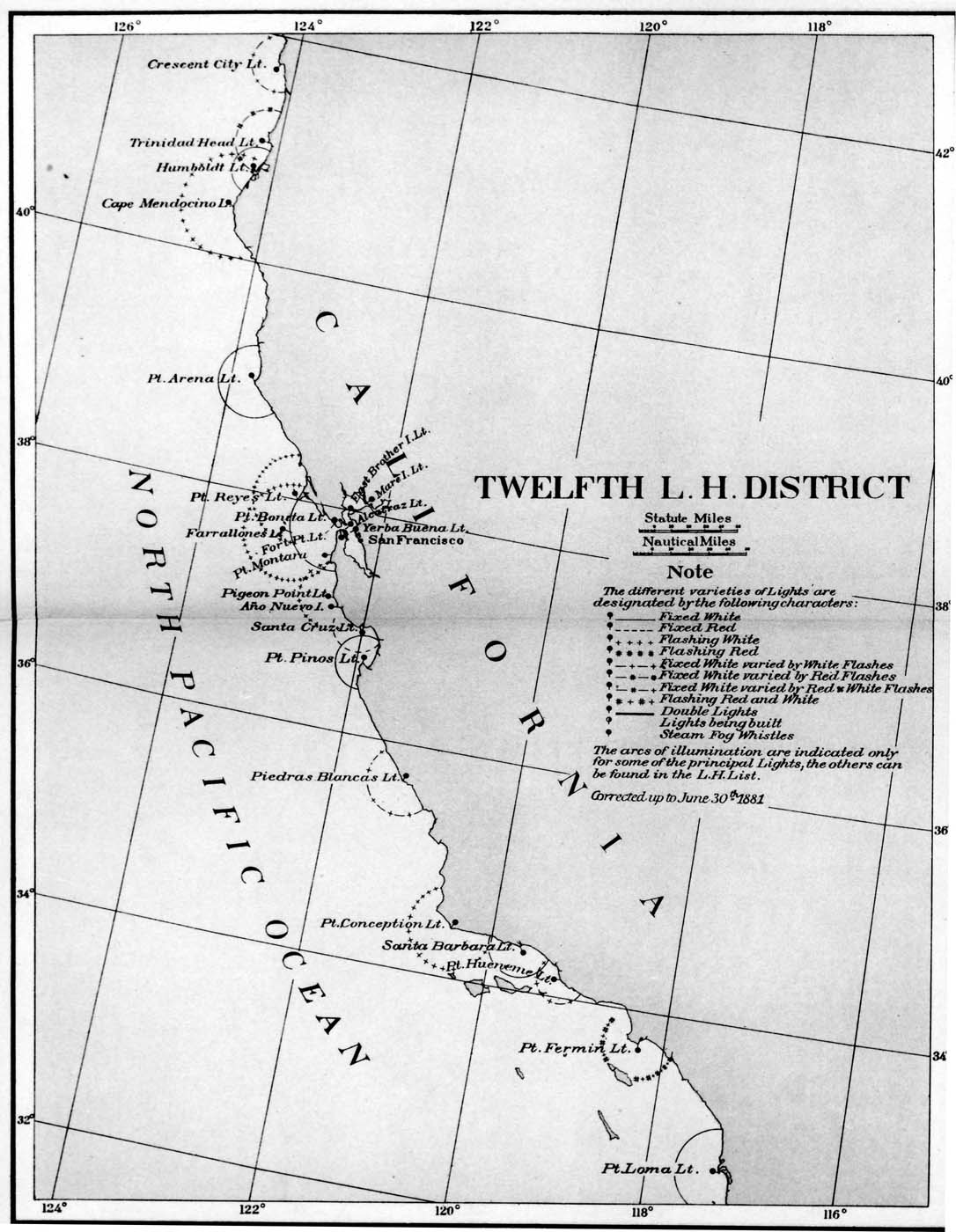 Map of the 12th Lighthouse District (California)